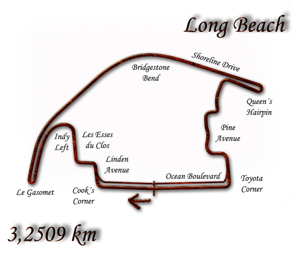 United States Grand Prix West 1976 - 1977